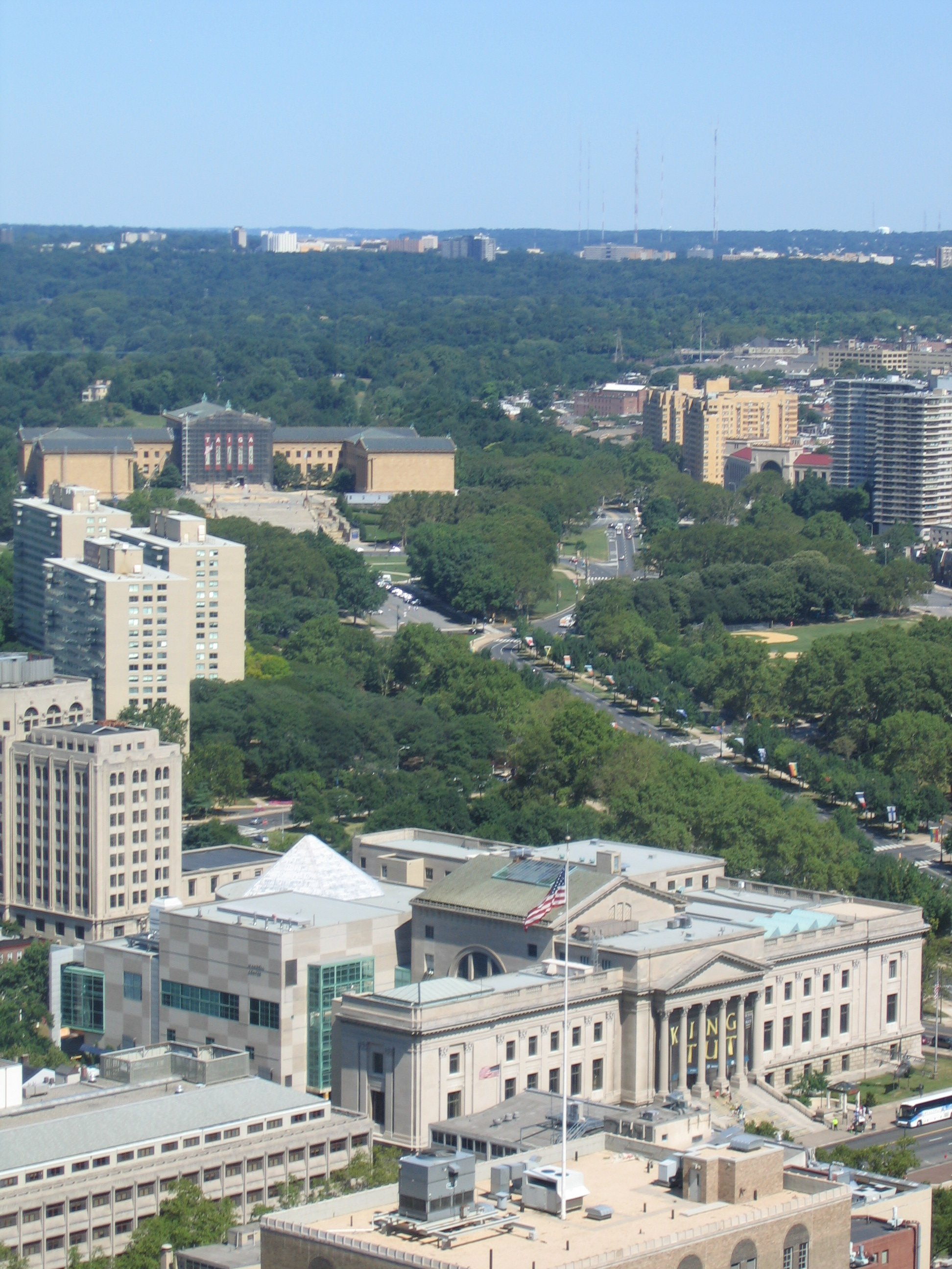 Philadelphia Museum of Art and the Franklin Institute, on Benjamin Franklin Parkway in Philadelphia